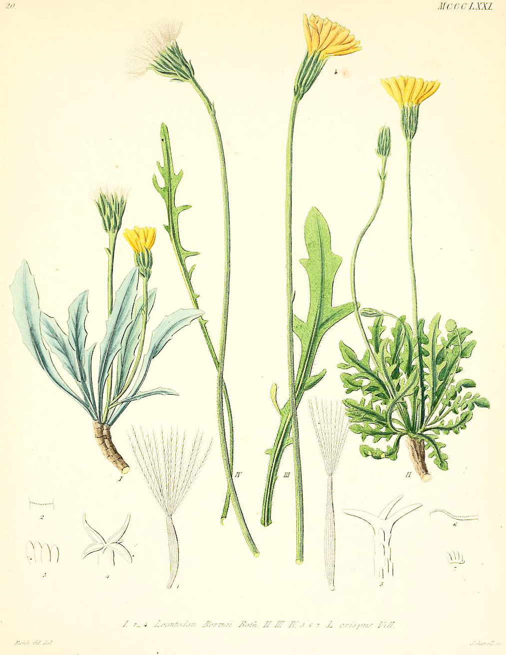 Leontodon berinii Roth. et Leontodon crispus Vill. - Heinrich Gustav Reichenbach, Icones florae Germanicae...', Vol XIX, Fig MCCLXXI